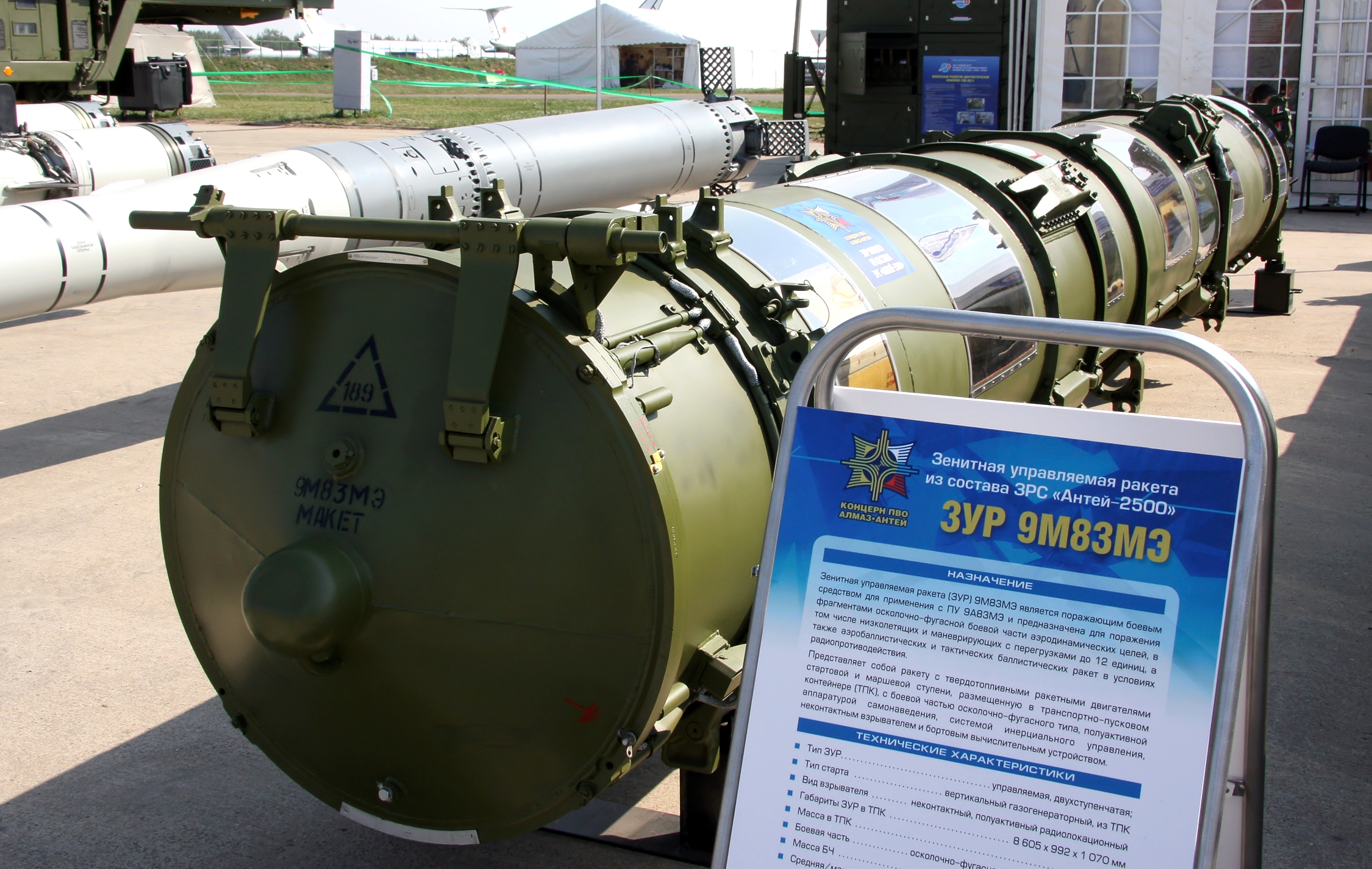 Surface-to-air missiles at the MAKS airshow 2011 near Moscow, Russia.